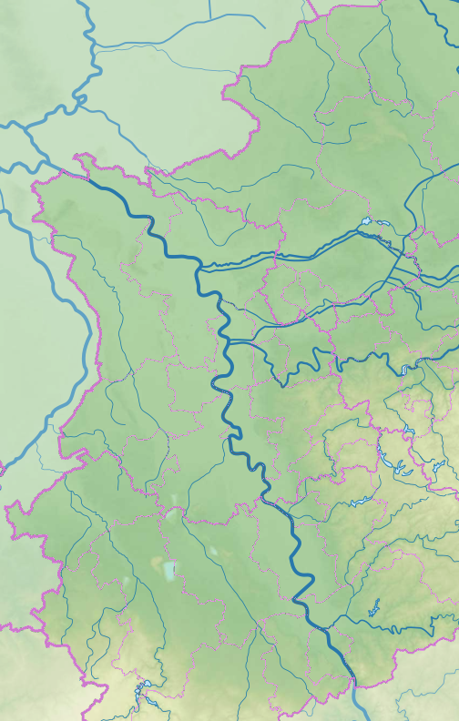 Location map North Rhine-Westphalia, Germany. Geographic limits of the map